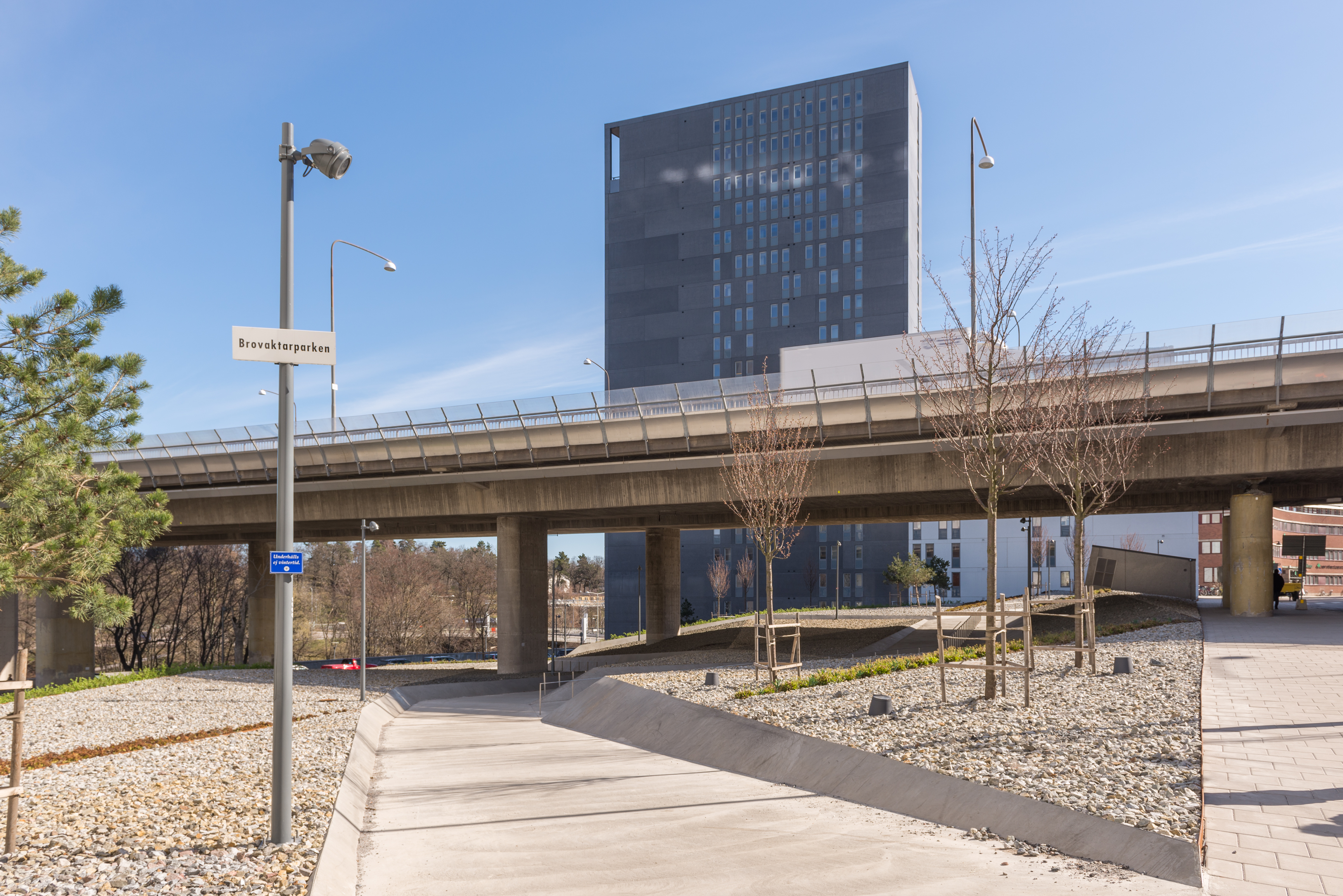 Brovaktarparken.